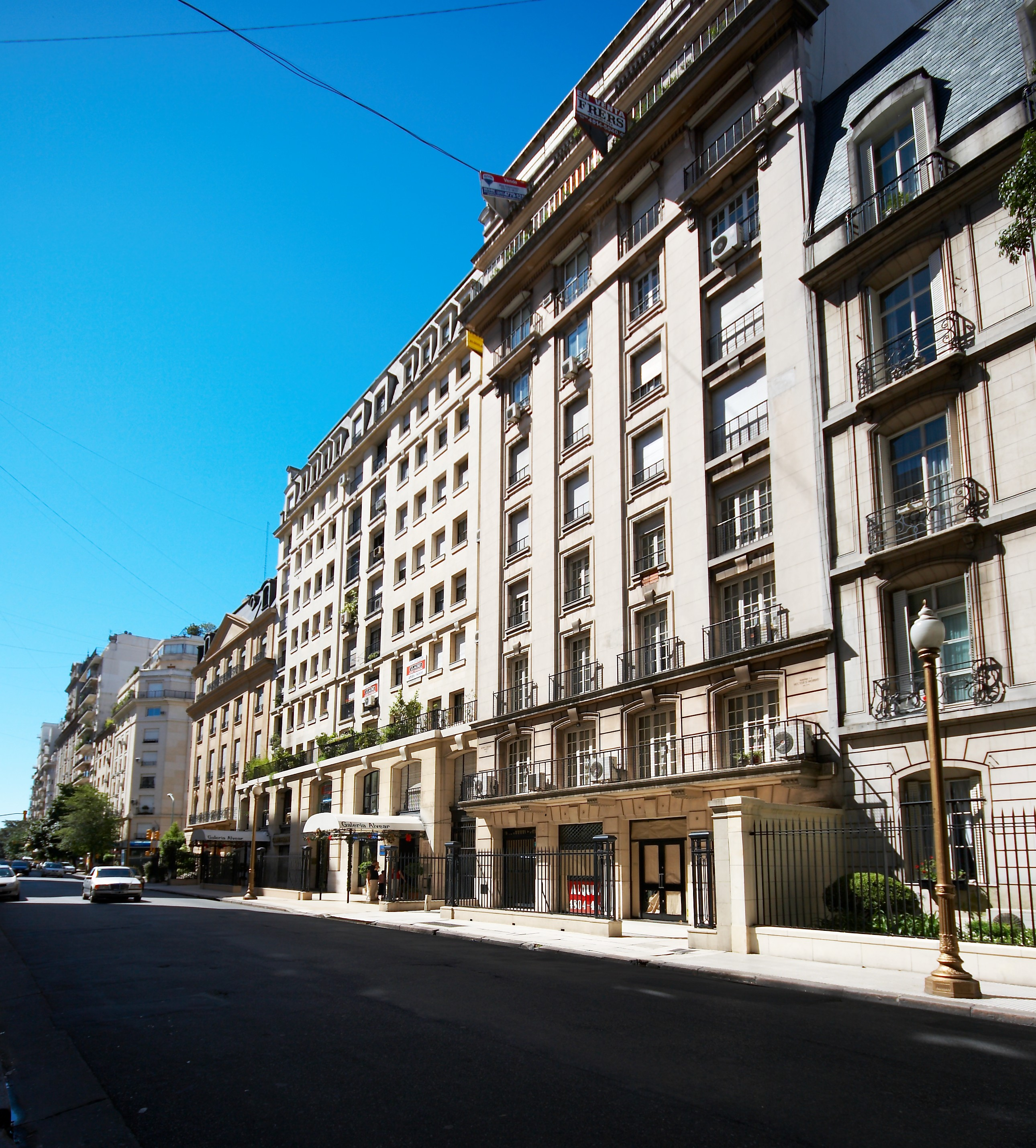 Apartment buildings on the 1700 block of Alvear Avenue. Buenos Aires, Argentina.